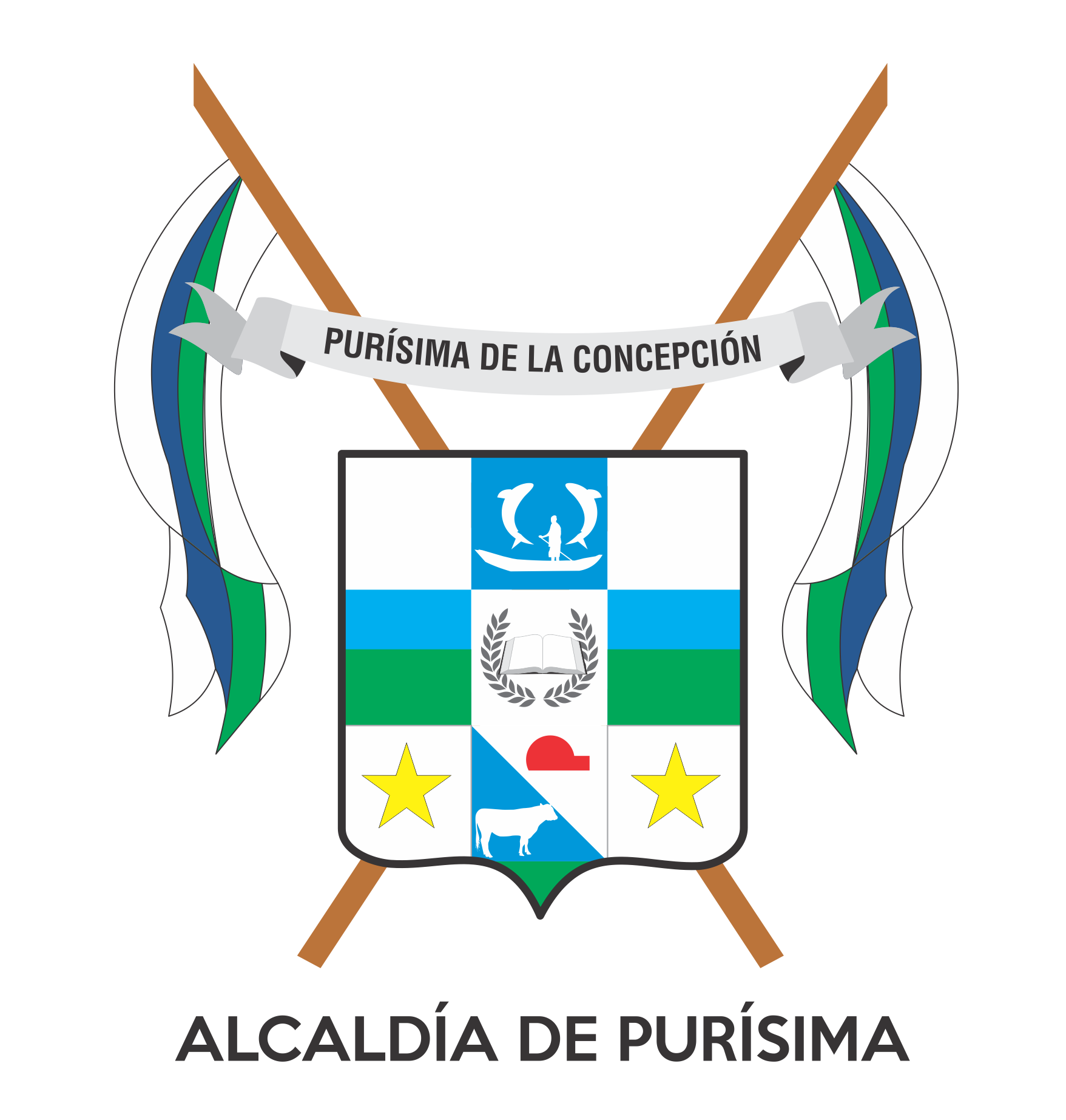 Escudo De Purisima